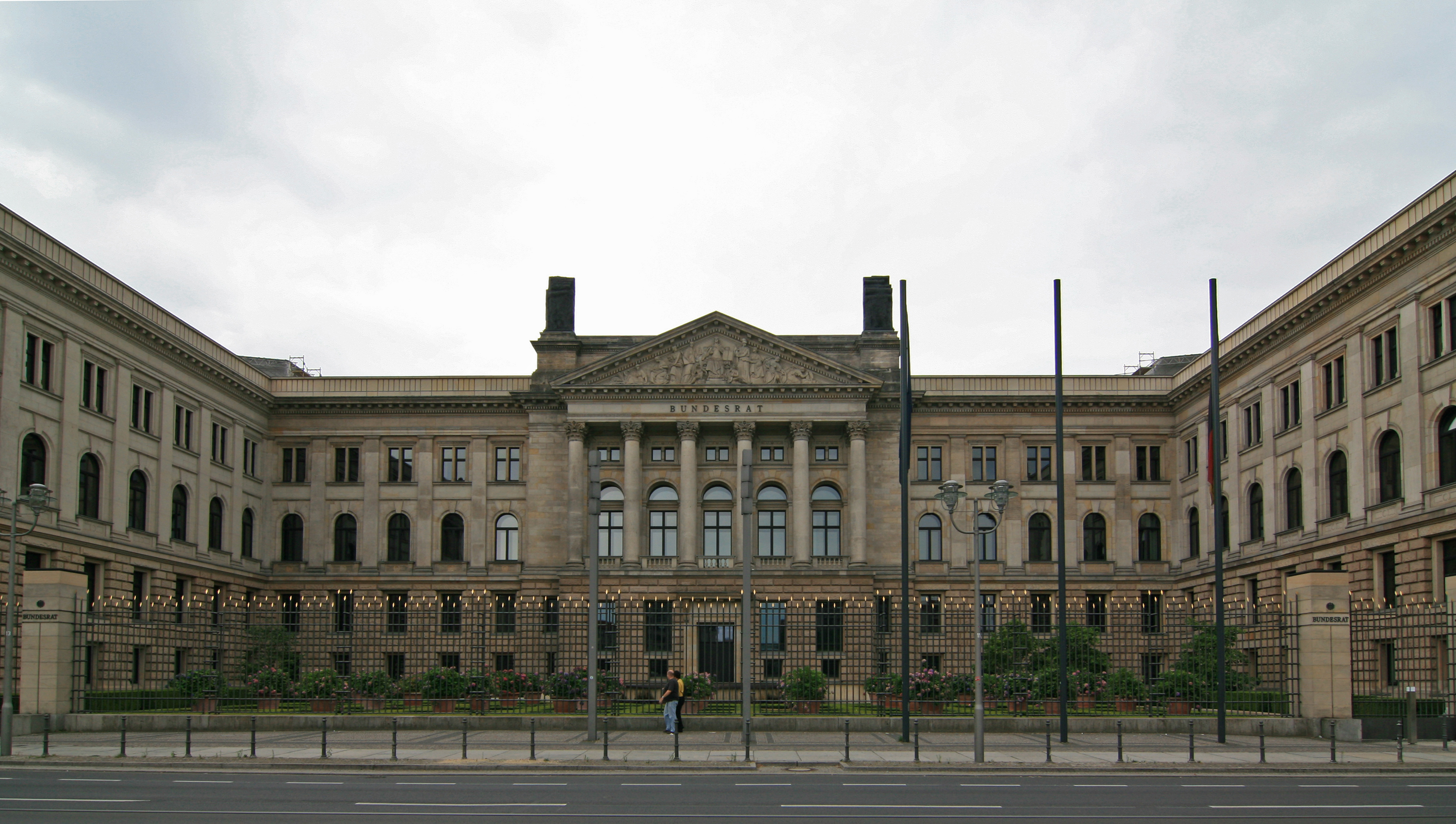 Bundesrat, Berlin.